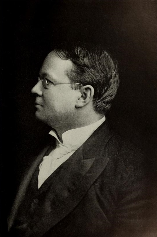 Portrait of William Rainey Harper